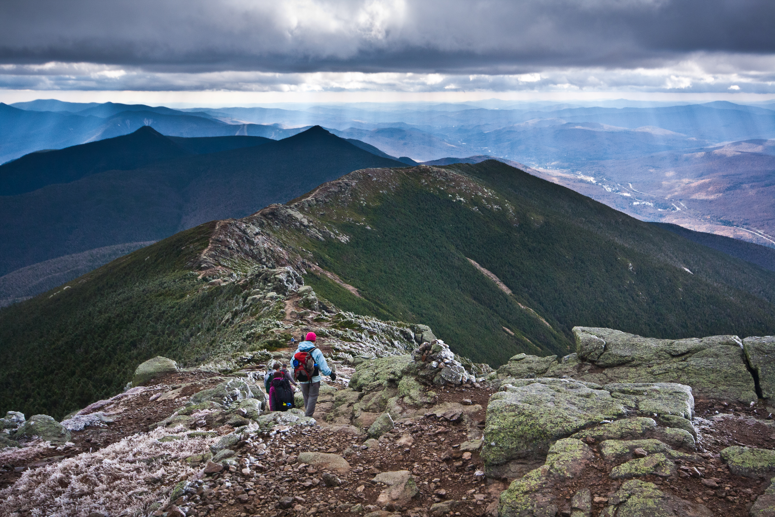 The Appalachian Trail along Franconia Ridge in New Hampshire